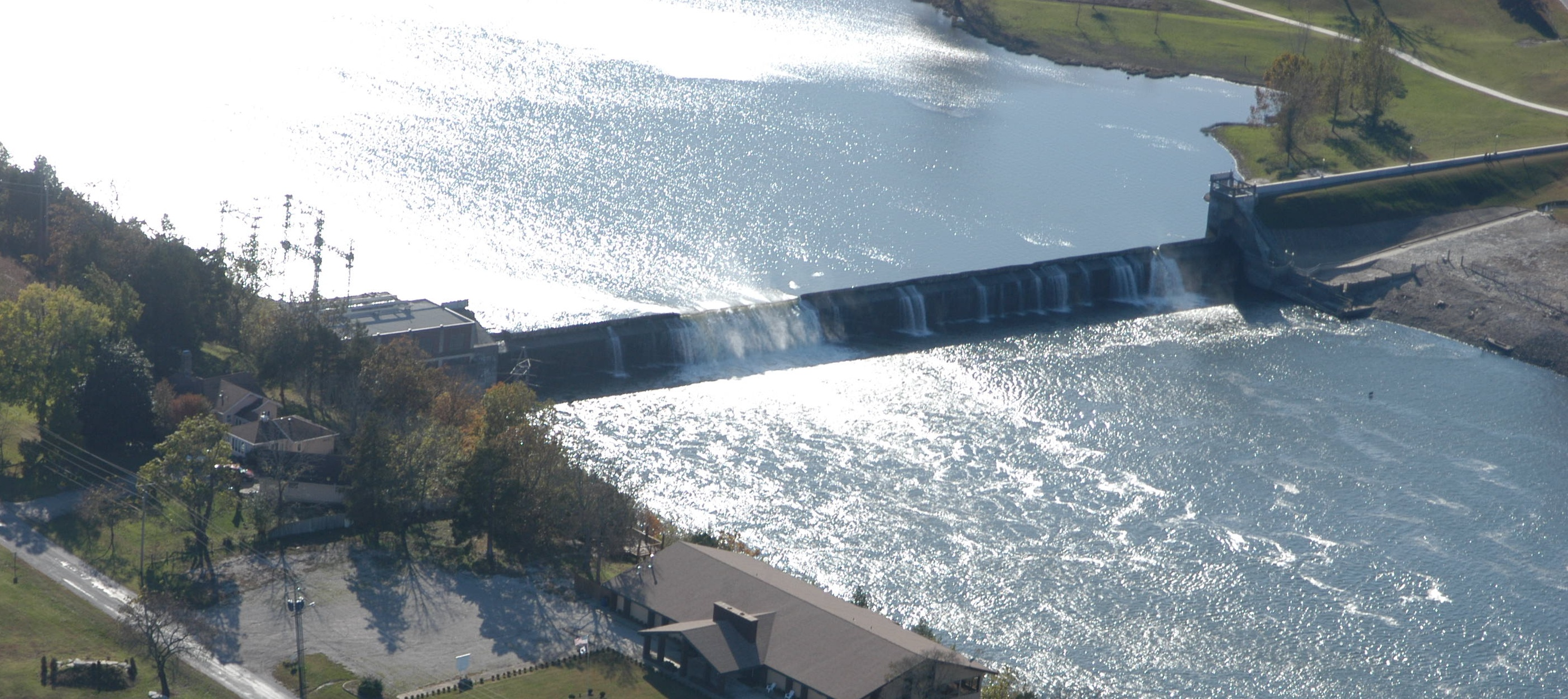 Low-quality aerial photo of Powersite Dam in Forsyth, Missouri